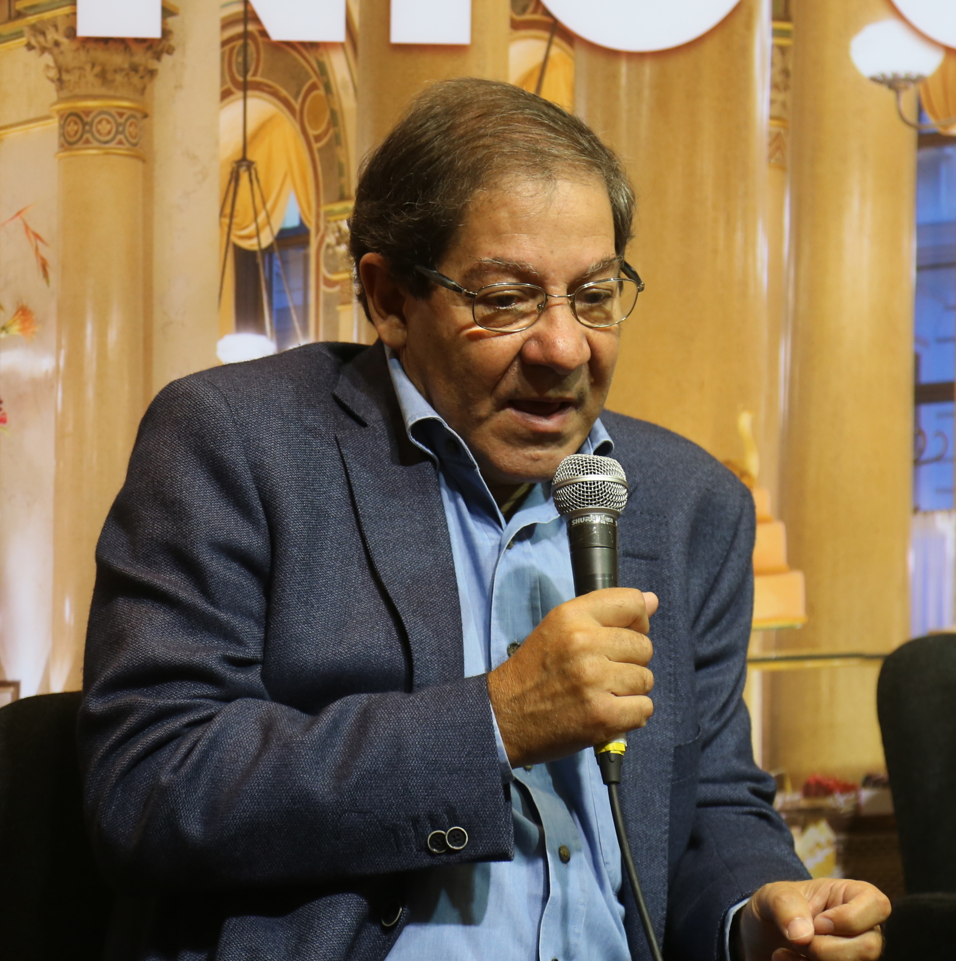 Nuno Júdice at his talk with Maria Dueñas at the Gothenburg book fair 2014.